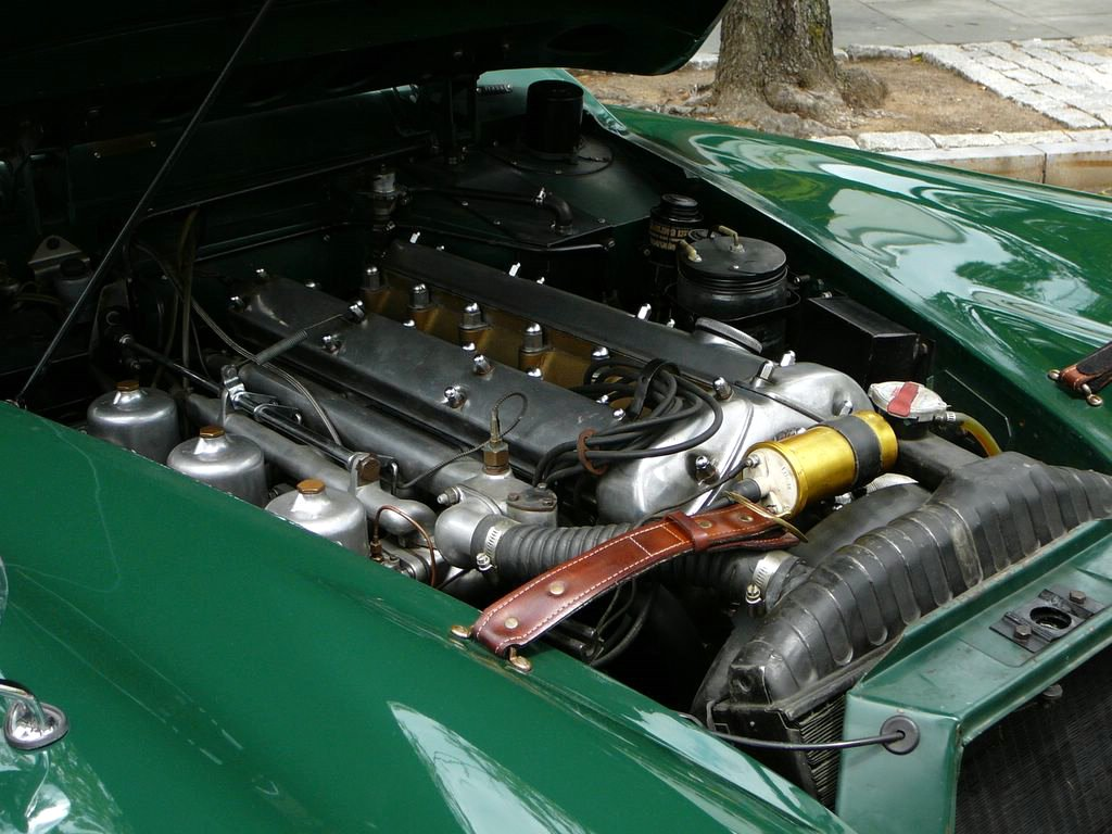 XK150 S engine compartment, note triple SU H8 carburettors. XK6 engine in an XK150.